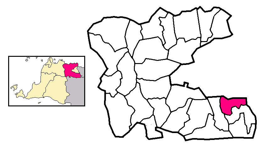 Location of Pondok Aren